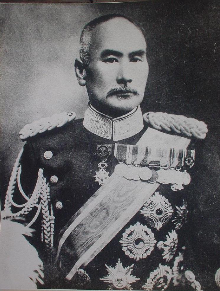 Portrait of Hasegawa Yoshimichi (長谷川好道, 1850 – 1924)